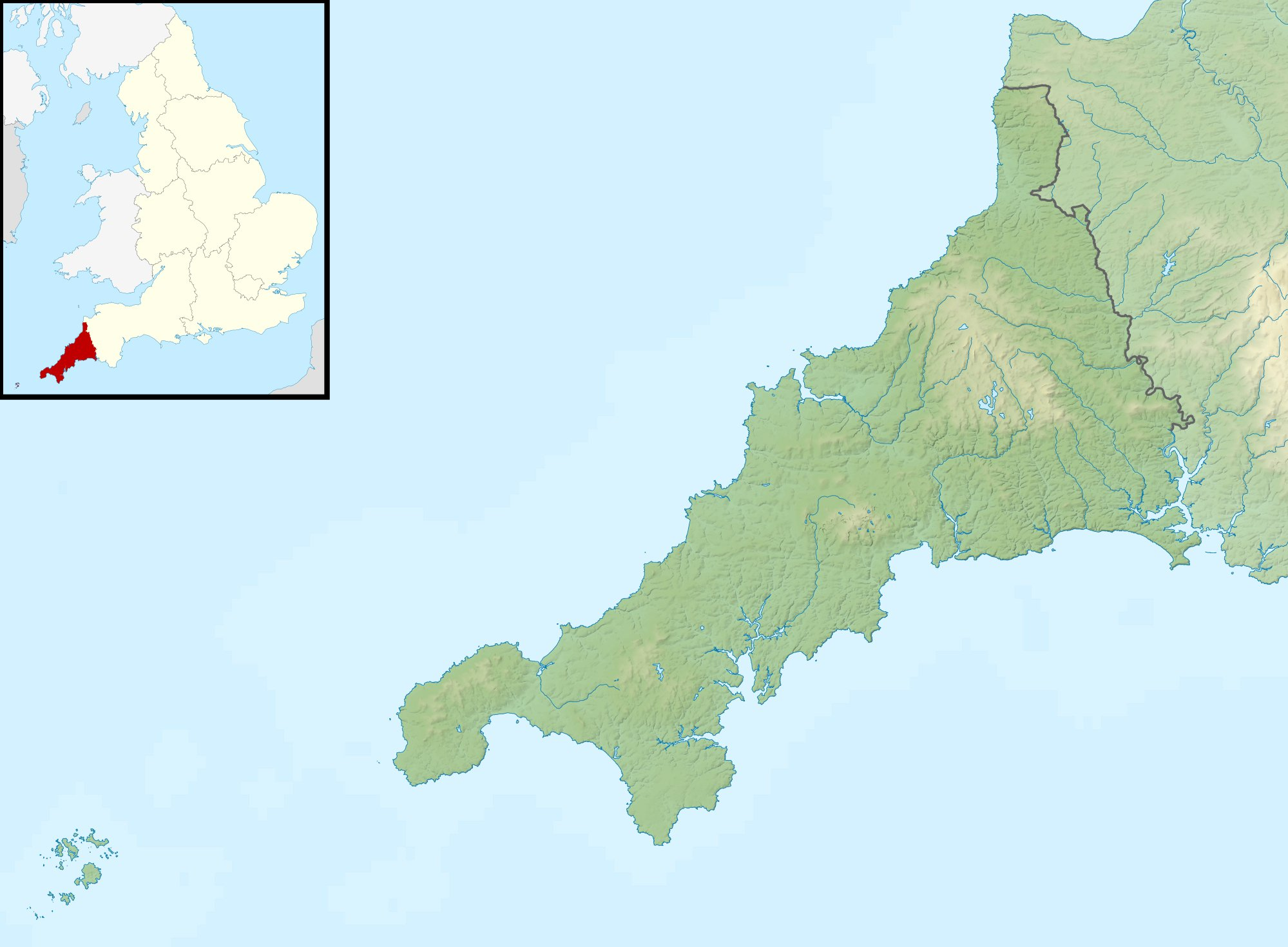 Relief map of Cornwall, UK. Equirectangular map projection on WGS 84 datum, with N/S stretched 150% Geographic limits: West: 6.47W East: 4.00W North: 51.04N South: 49.83N